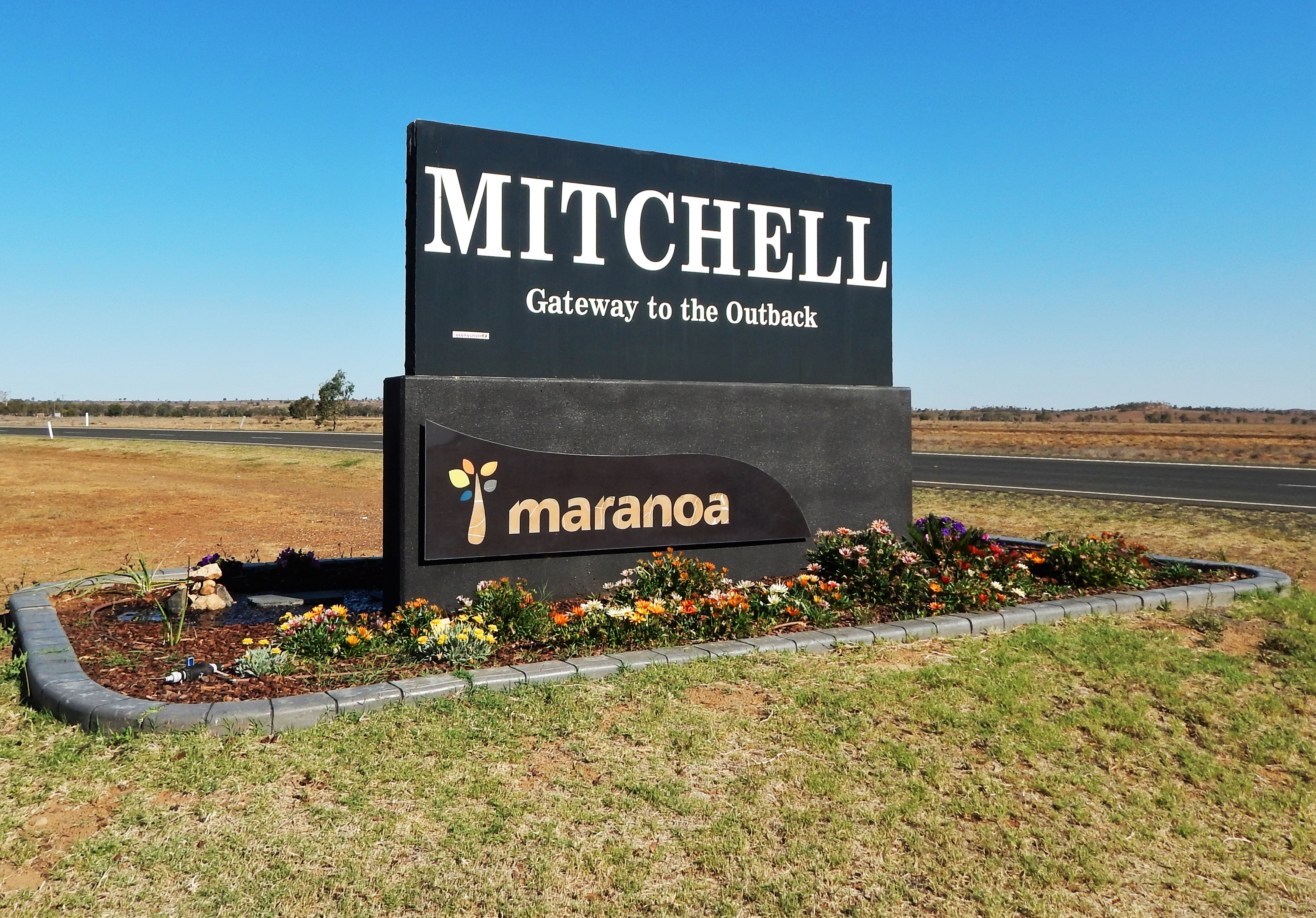 The 'Mitchell: Gateway to the Outback' sign located at the western entrance of the town of Mitchell